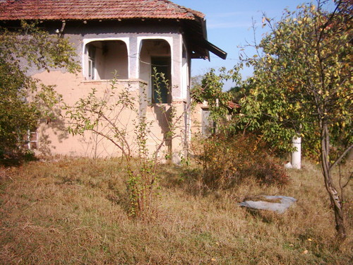 Traditional house in Bozhurlika Village (Levski county, Bulgaria)